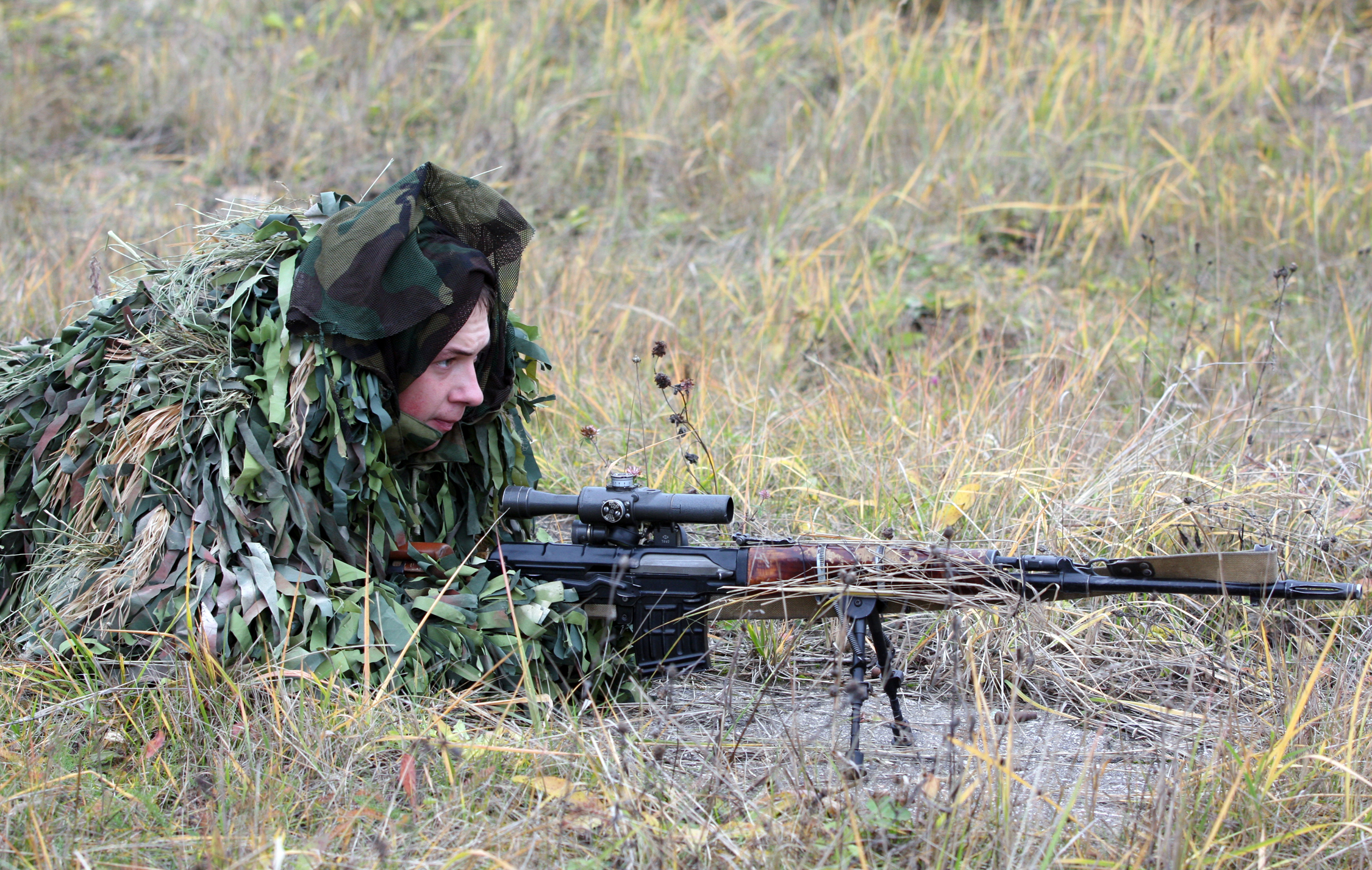 Snipers